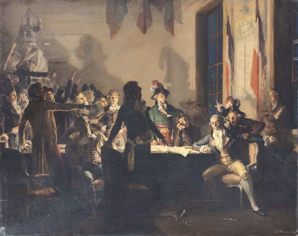 Saint-Just and the members of the committee of execution begged Robespierre to affix his signature at the bottom of the appeal to the insurrection addressed to the Parisian section of the Spades. « On behalf of whom ? » said Robespierre, hesitantly. « In the name of the Convention, she is everywhere where we are ! », replied Saint-Just.